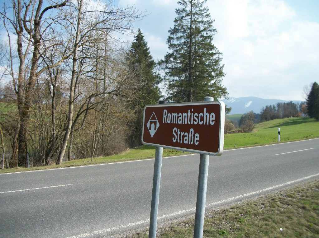 Romantic Road near Peiting